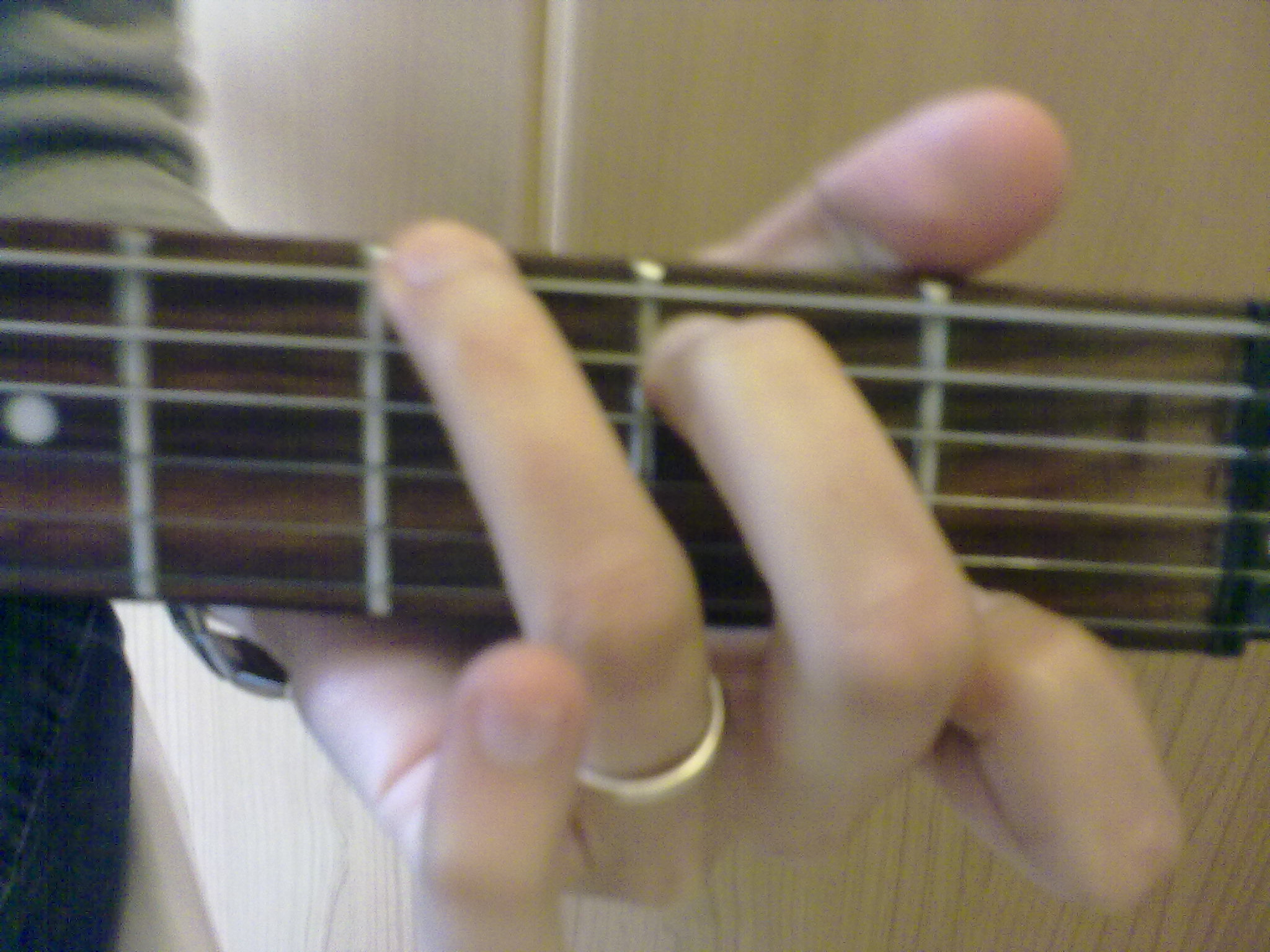 G7 guitar chord fingering